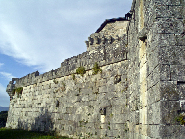 Castle of Maceda